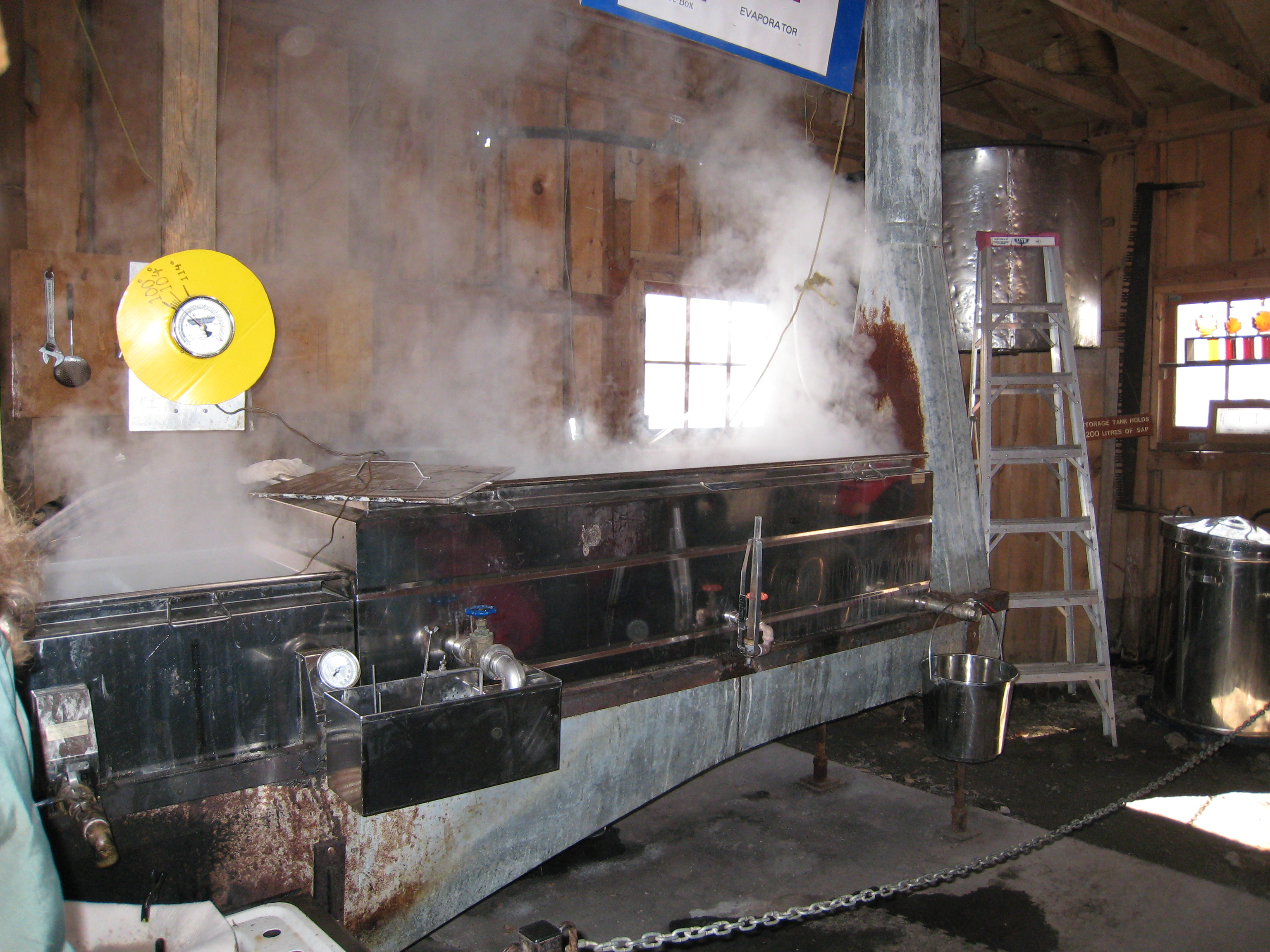 the modern way of boiling the syrup